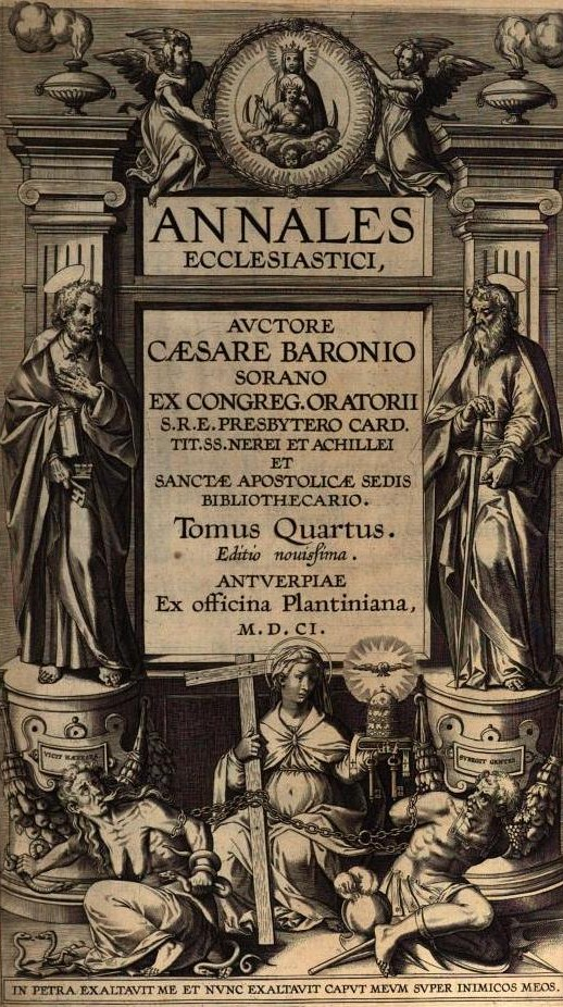 Title page of volume 4 of the Annales Ecclesiastici of Caesar Baronius.